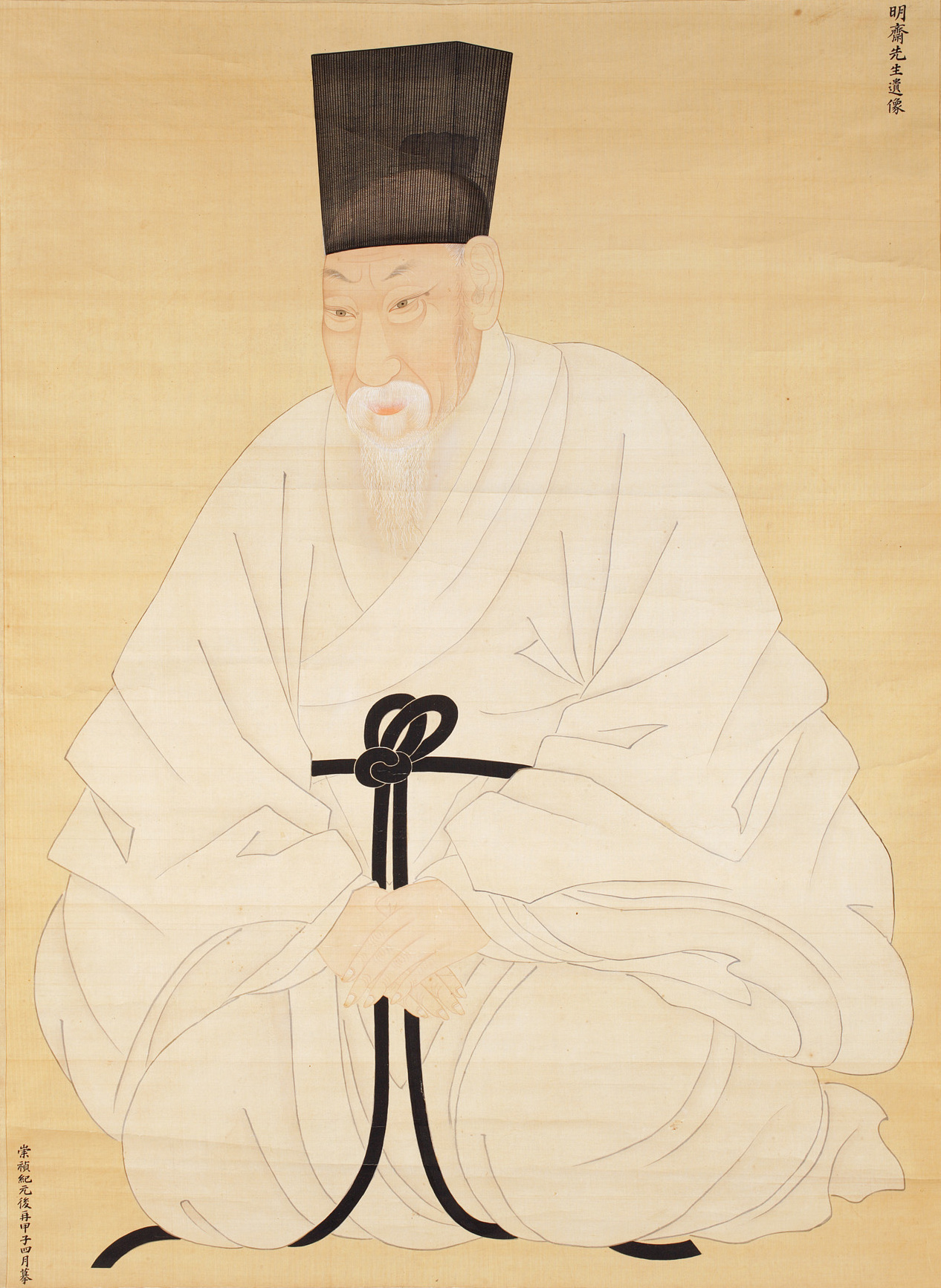 Portrait of Yun Jeung